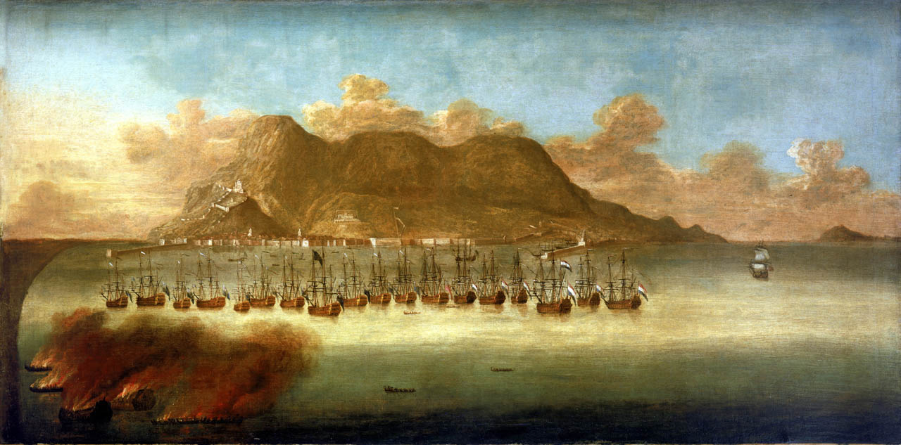 The Taking of Gibraltar